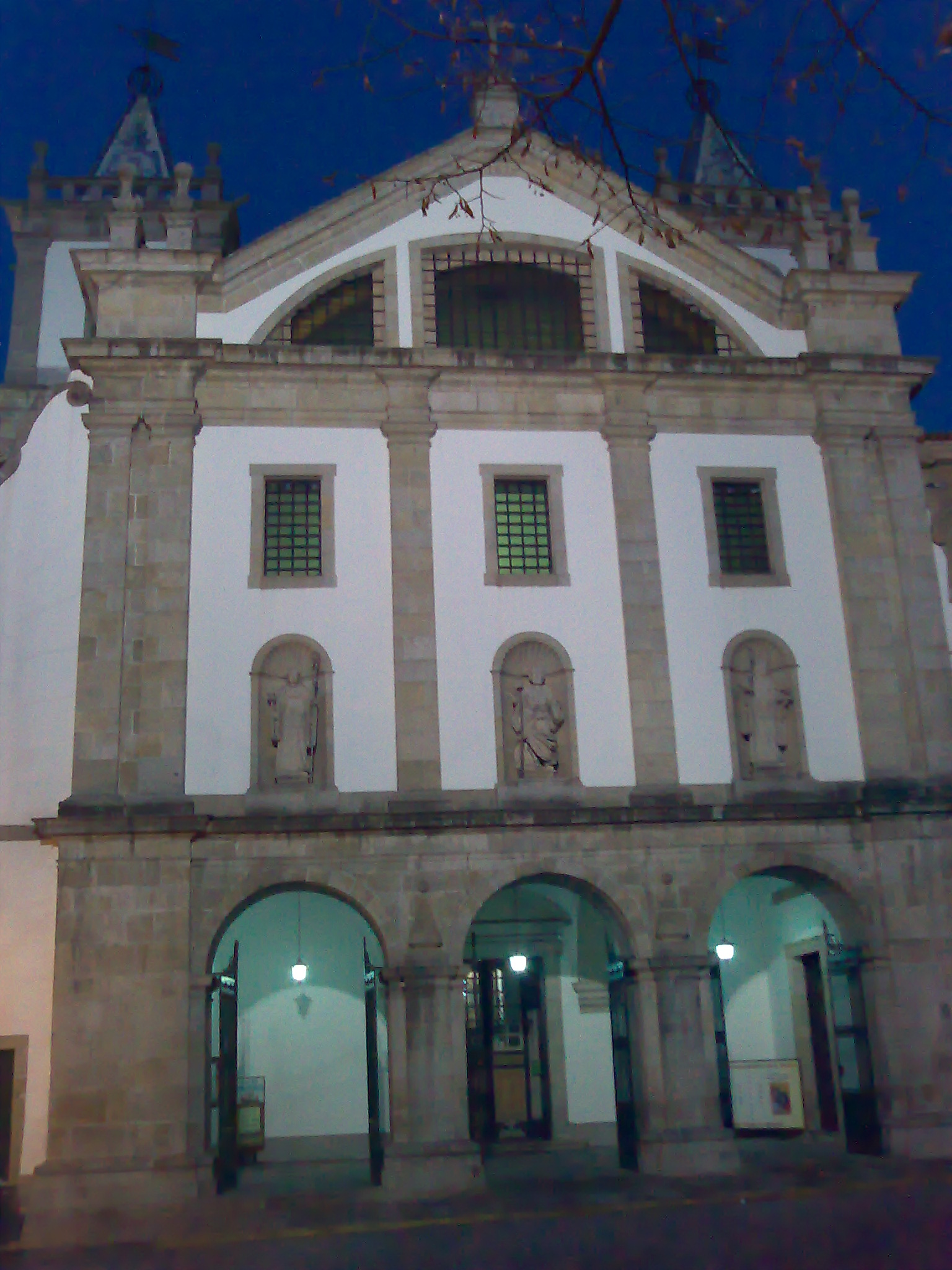 Monastary of Santo Tirso, Portugal.